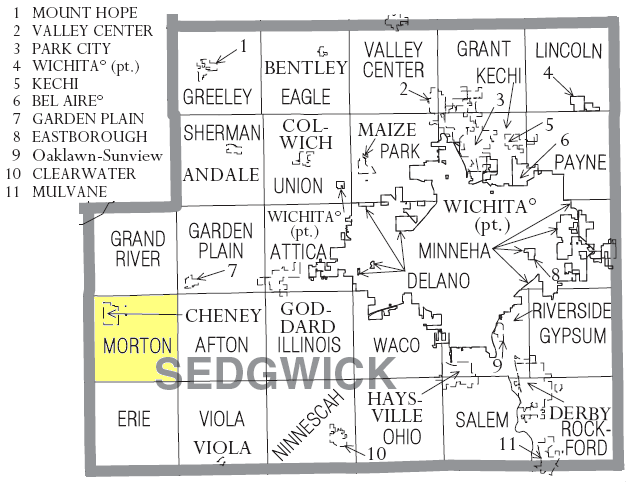 Map of Sedgwick County, Kansas highlighting Morton Township